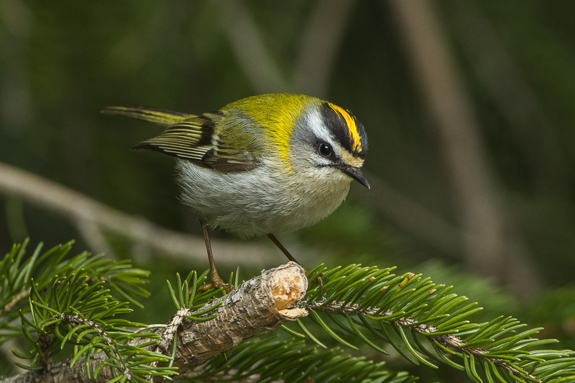 Firecrest - Appenines - Italy_S4E5222